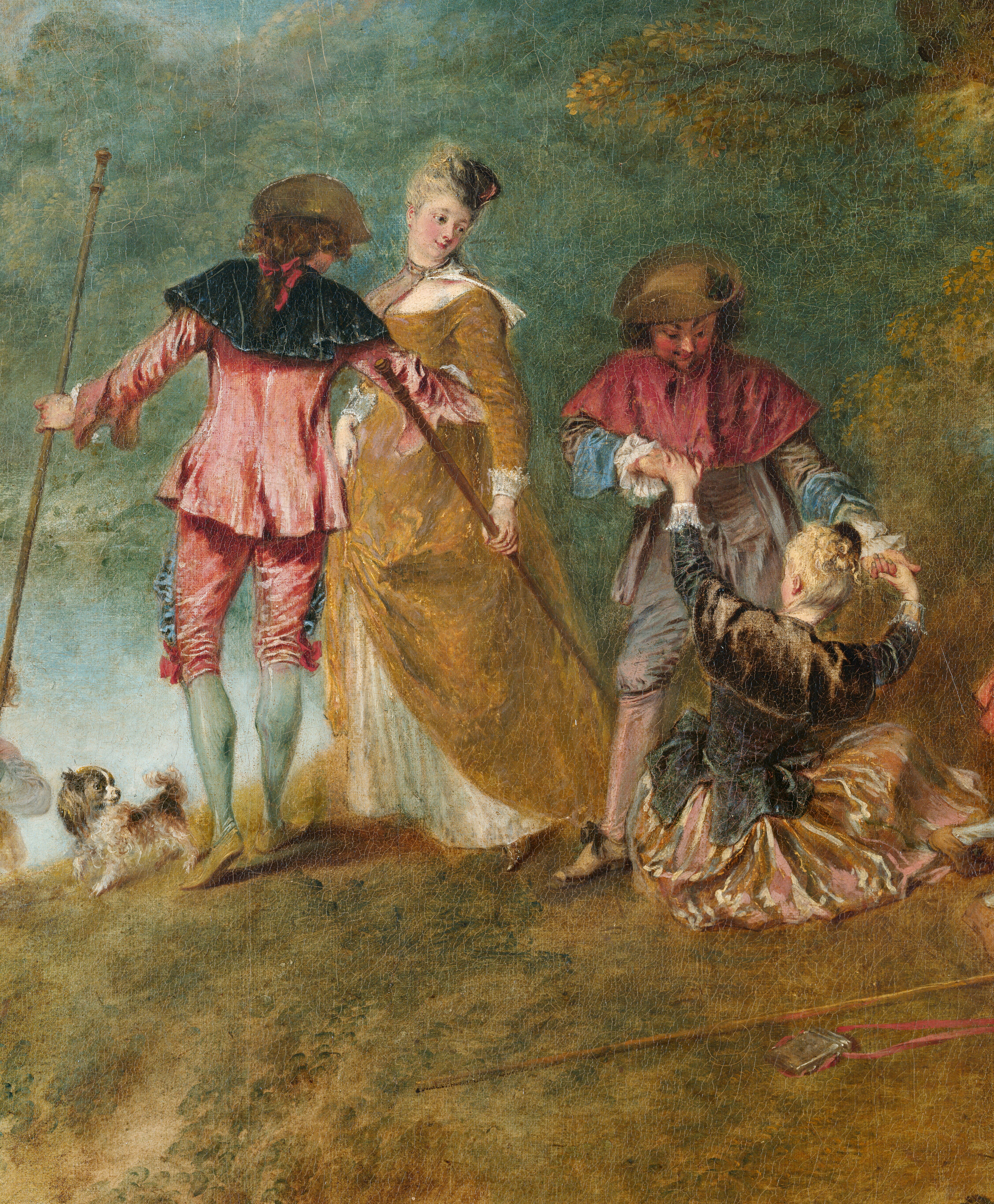 Pilgrimage on the Isle of Cythera (1717)label QS:Len,"Pilgrimage on the Isle of Cythera (1717)" label QS:Lfr,"Pélerinage à l'île de Cythère (1717)"